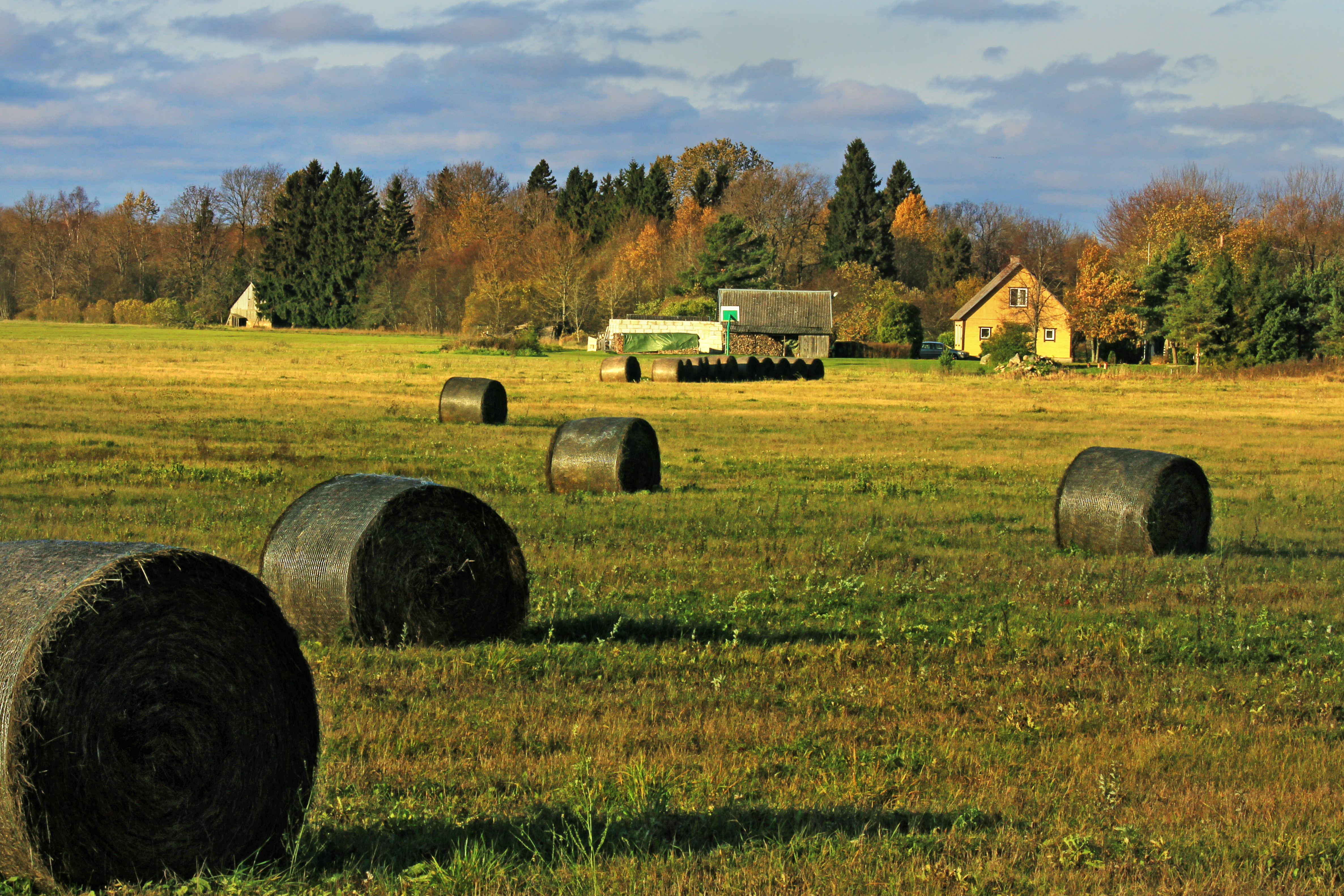 Hay rolls